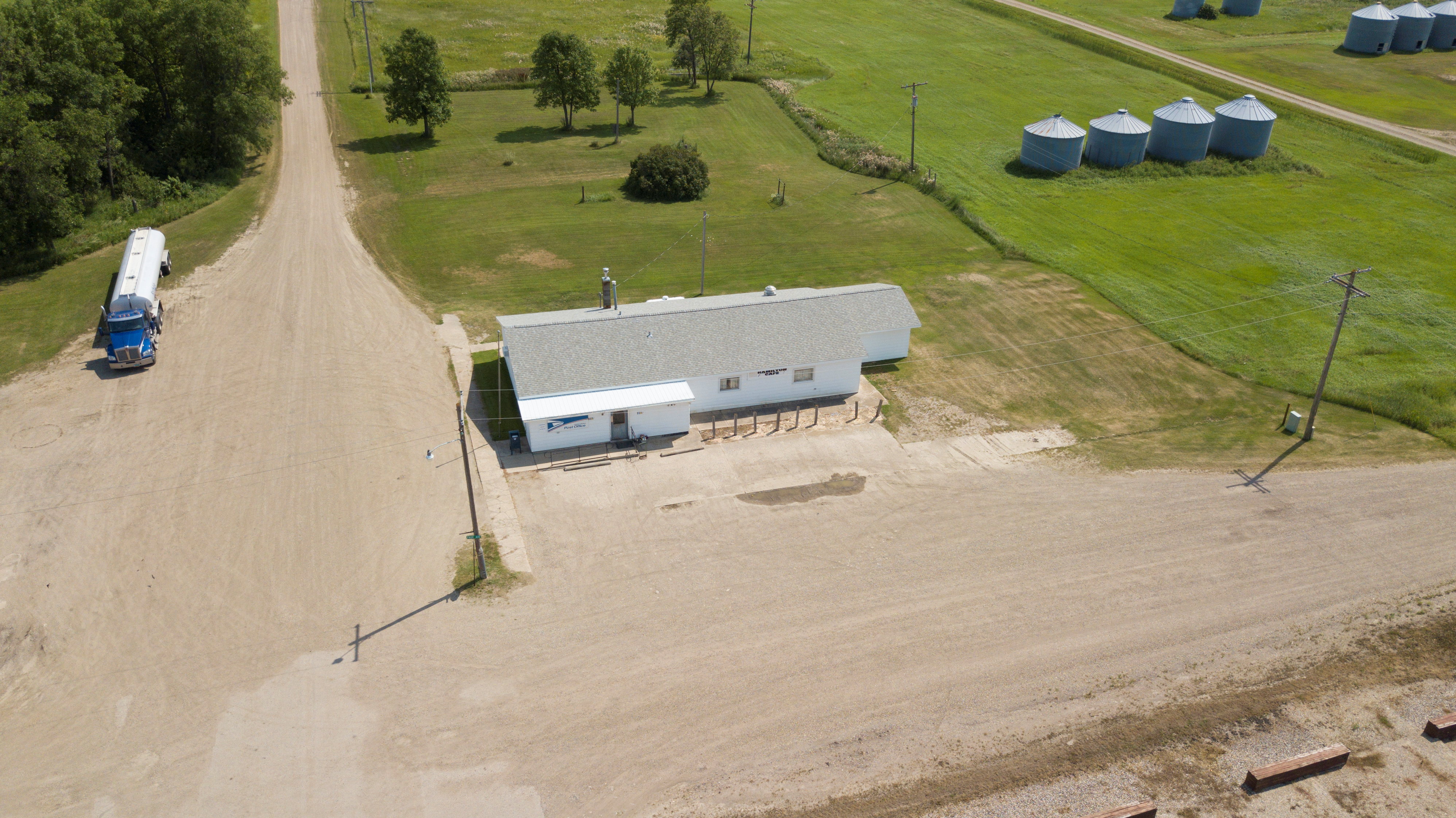 Hamilton, North Dakota - US Post Office and Cafe, taken with a DJI Mavic Pro drone by Neal Martin (originally from Hamilton, ND).